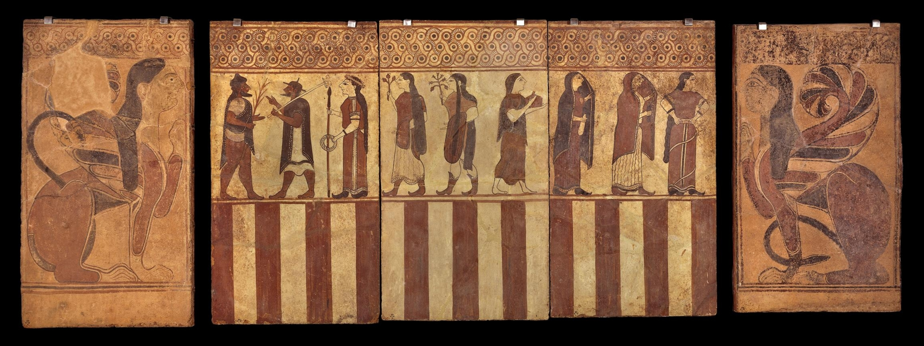 Etruscan Boccanera Plaques from Cerveteri in the British Museum London